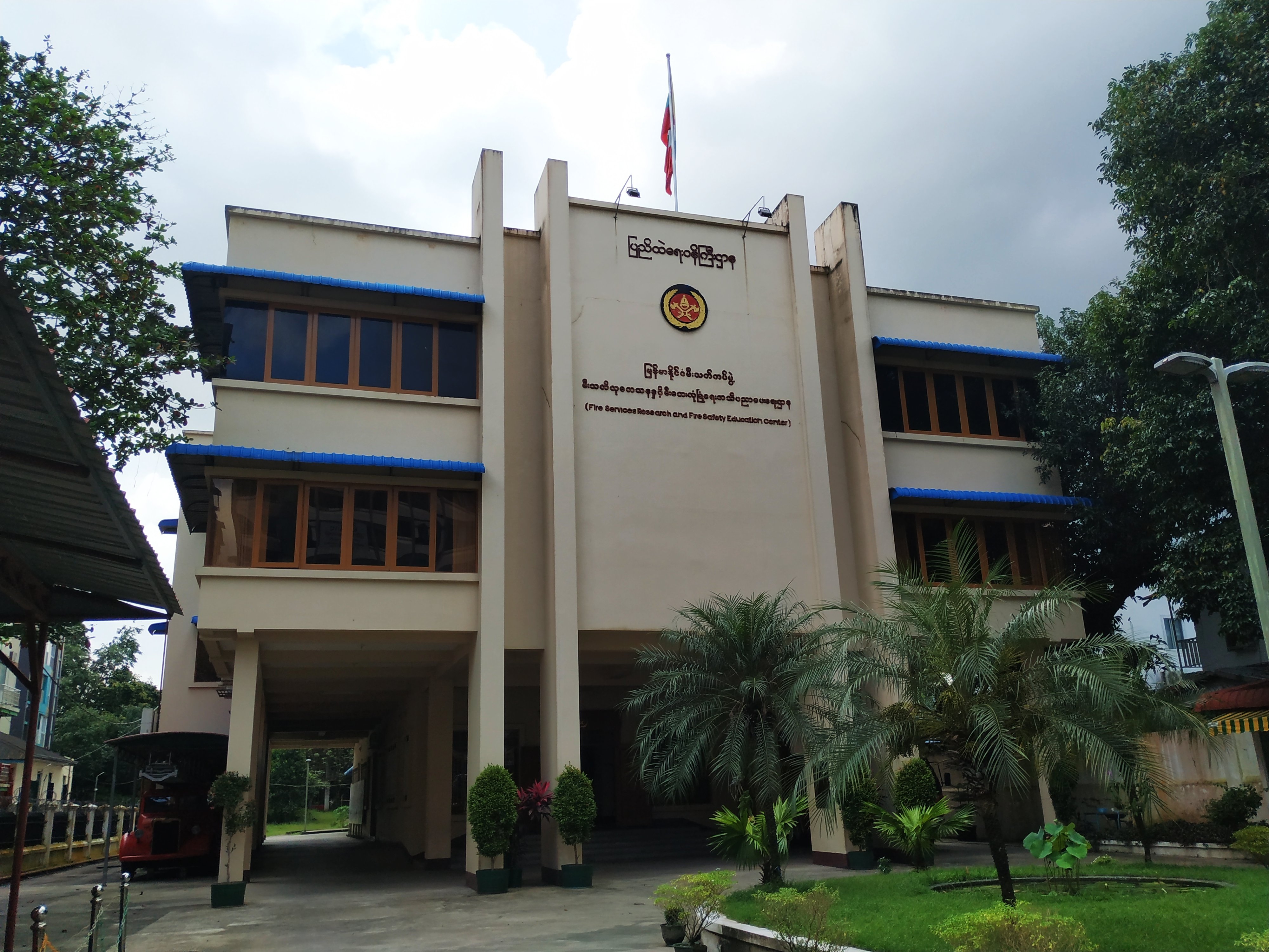 Yangon Fire Service Research and Fire Safety Education Center, Pyay Road, Yangon မြန်မာဘာသာ: မြန်မာနိုင်ငံမီးသတ်တပ်ဖွဲ့၊ မီးသတ်သုတေသနနှင့် မီးဘေးလုံခြုံရေး အသိပညာပေးရေးဌာန၊ ပြည်လမ်း၊ ရန်ကုန်